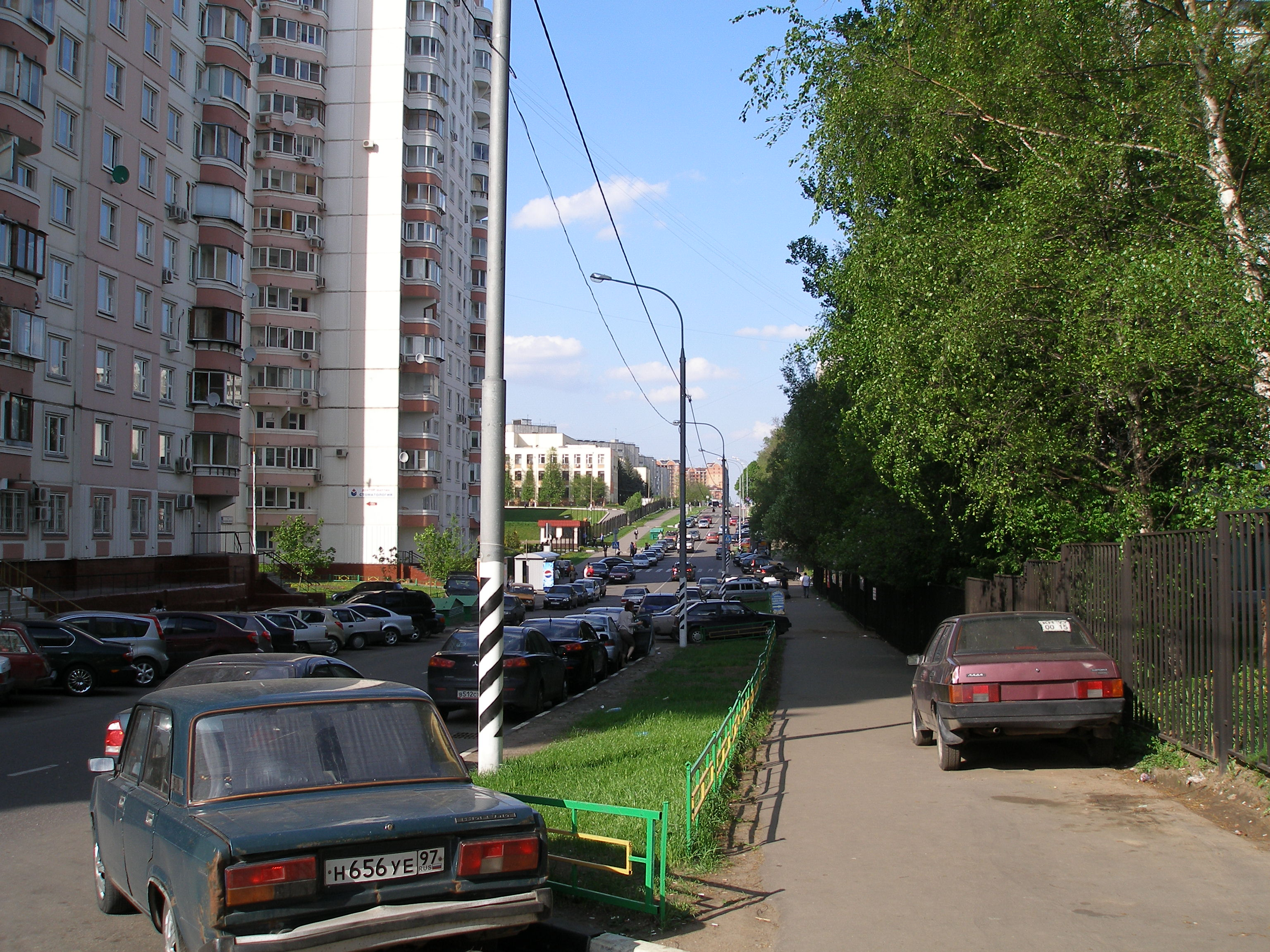 Akademika Volgina street. Moscow. Russia